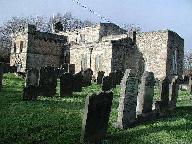 St Helen's parish church, St Helen Auckland, County Durham, seen from the southeast